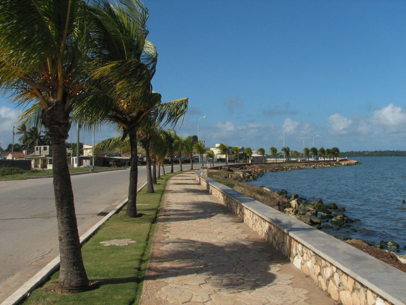 my own photos